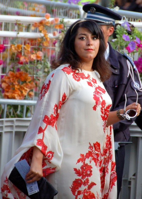 Marjane Satrapi at the Cannes Film Festival